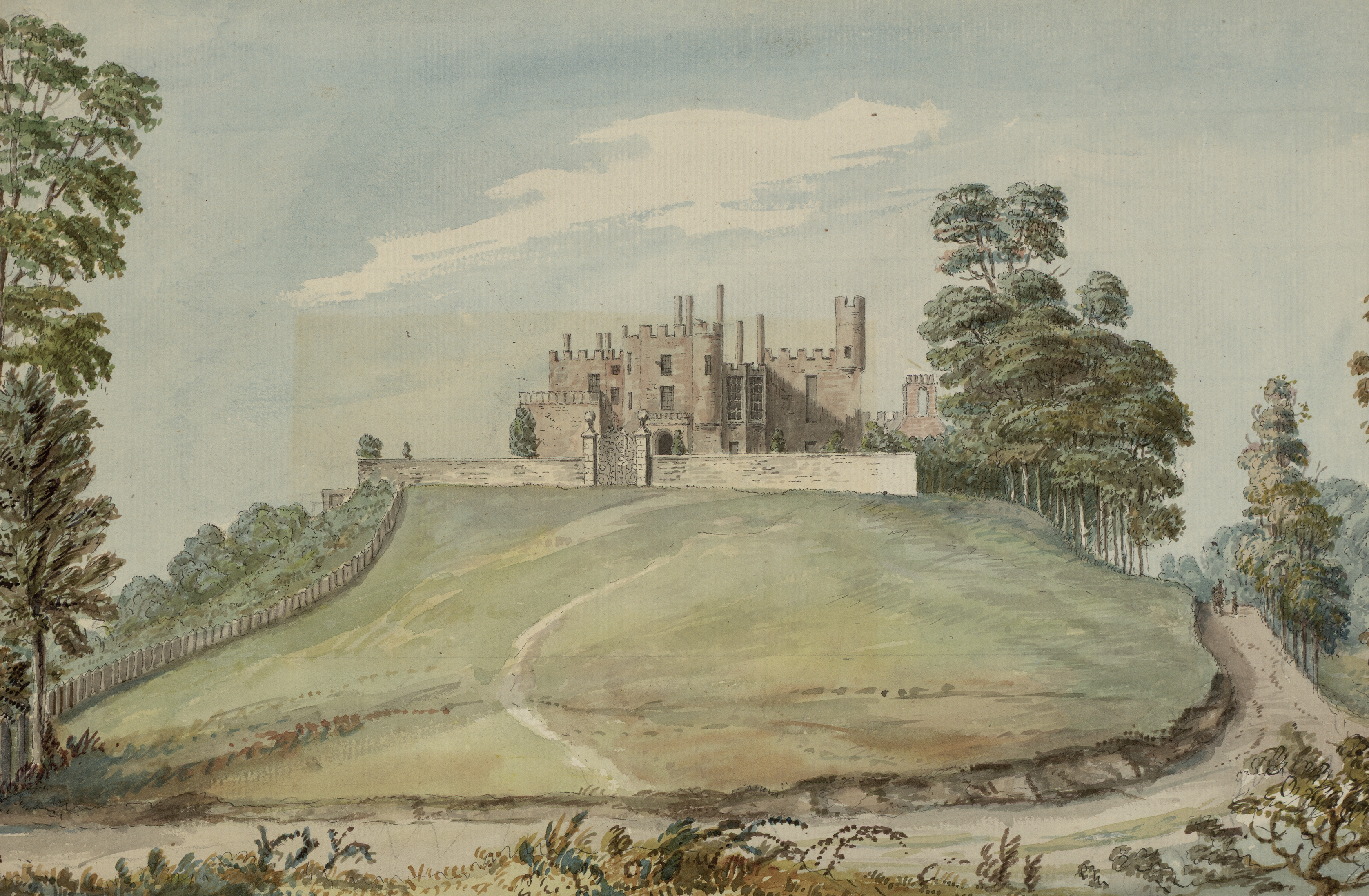 An image from a set of 8 extra-illustrated volumes of A tour in Wales by Thomas Pennant (1726-1798) that chronicle the three journeys he made through Wales between 1773 and 1776. These volumes are unique because they were compiled for Pennant's own library at Downing. This edition was produced in 1781. The volumes include a number of original drawings by Moses Griffiths, Ingleby and other well known artists of the period. Thomas Pennant (1726-1798)